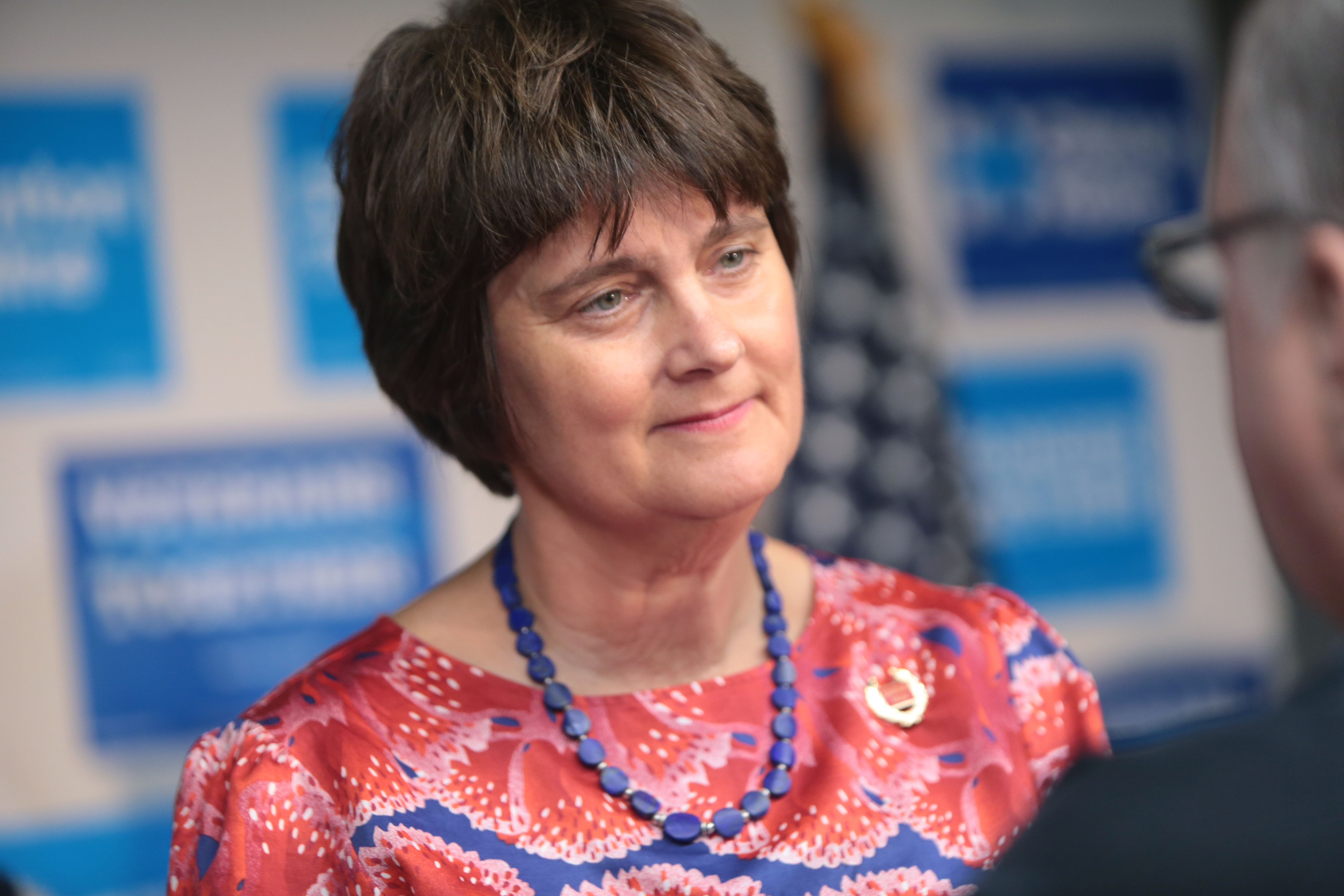 Anne Holton, wife of U.S. Senator Tim Kaine, speaking with supporters at a veterans roundtable at the Luna Culture Lab in Phoenix, Arizona.